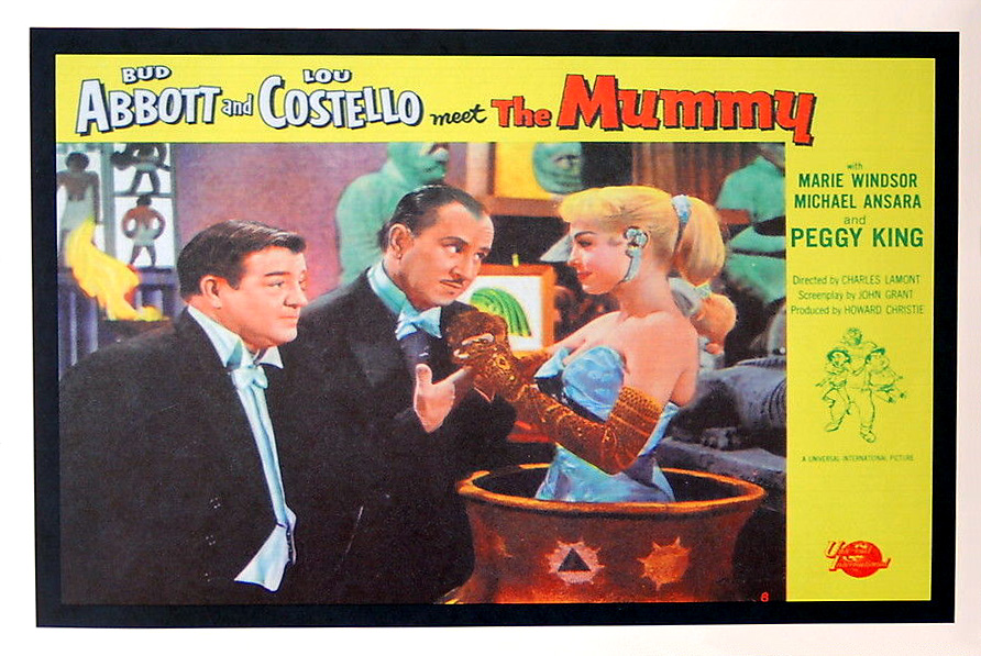 Colored lobby card for the 1955 American movie Abbott and Costello Meet the Mummy. This image is assumed to be in the public domain as no copyright notice is in evidence.